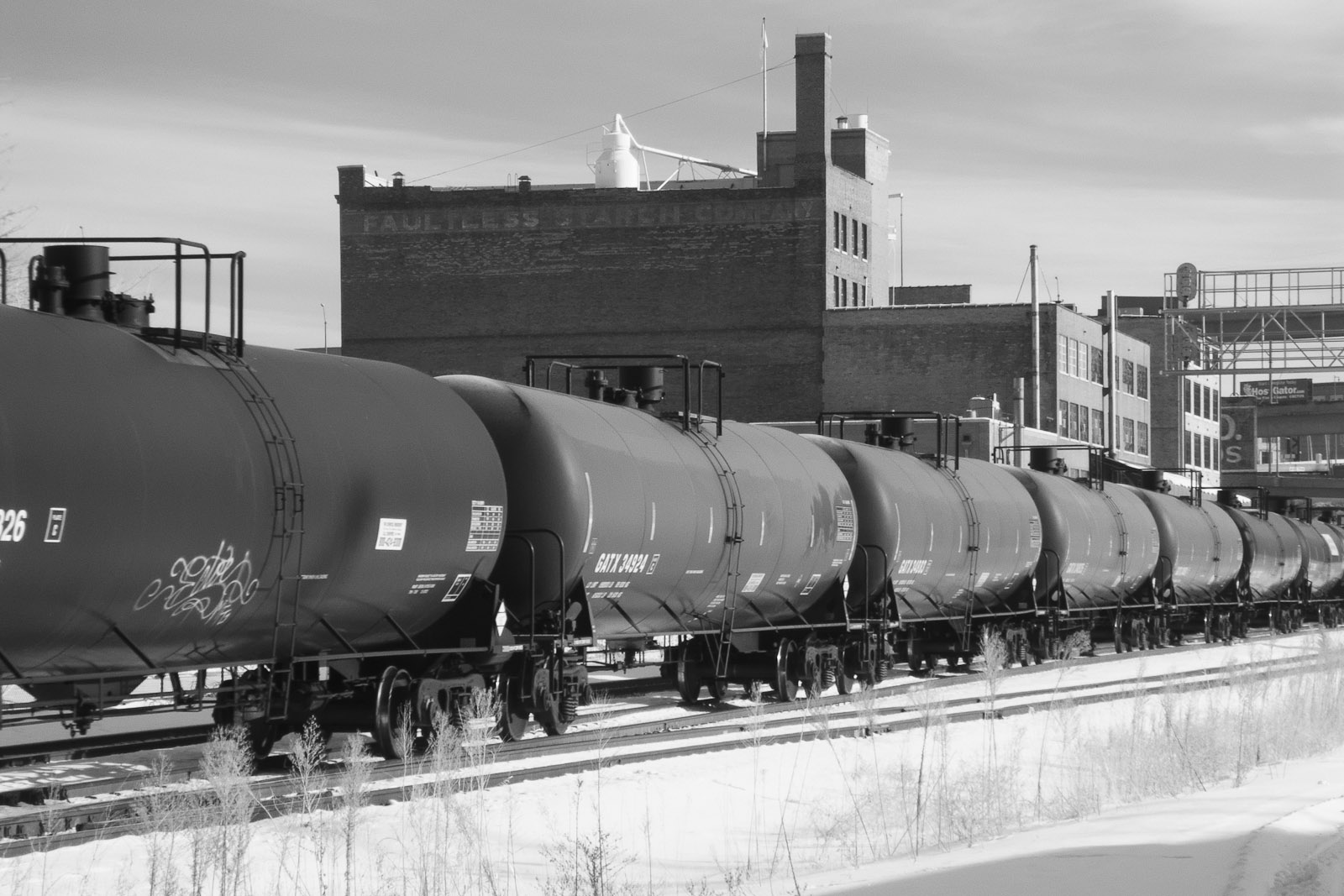 West Bottoms, Kansas City MO